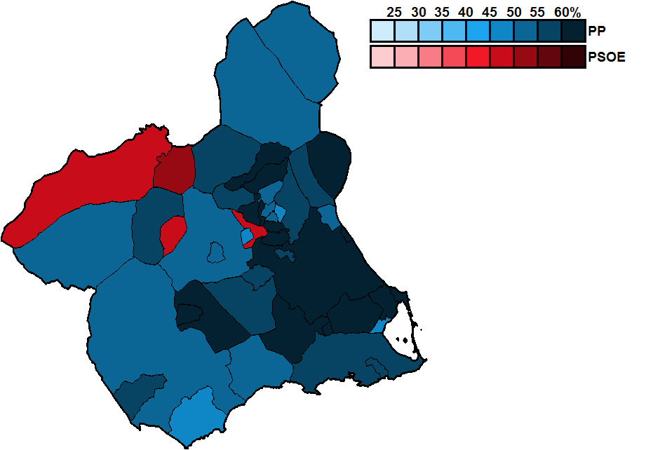 Most-voted party in Murcia municipalities, showing vote share obtained, in the Spanish general election, 2004.